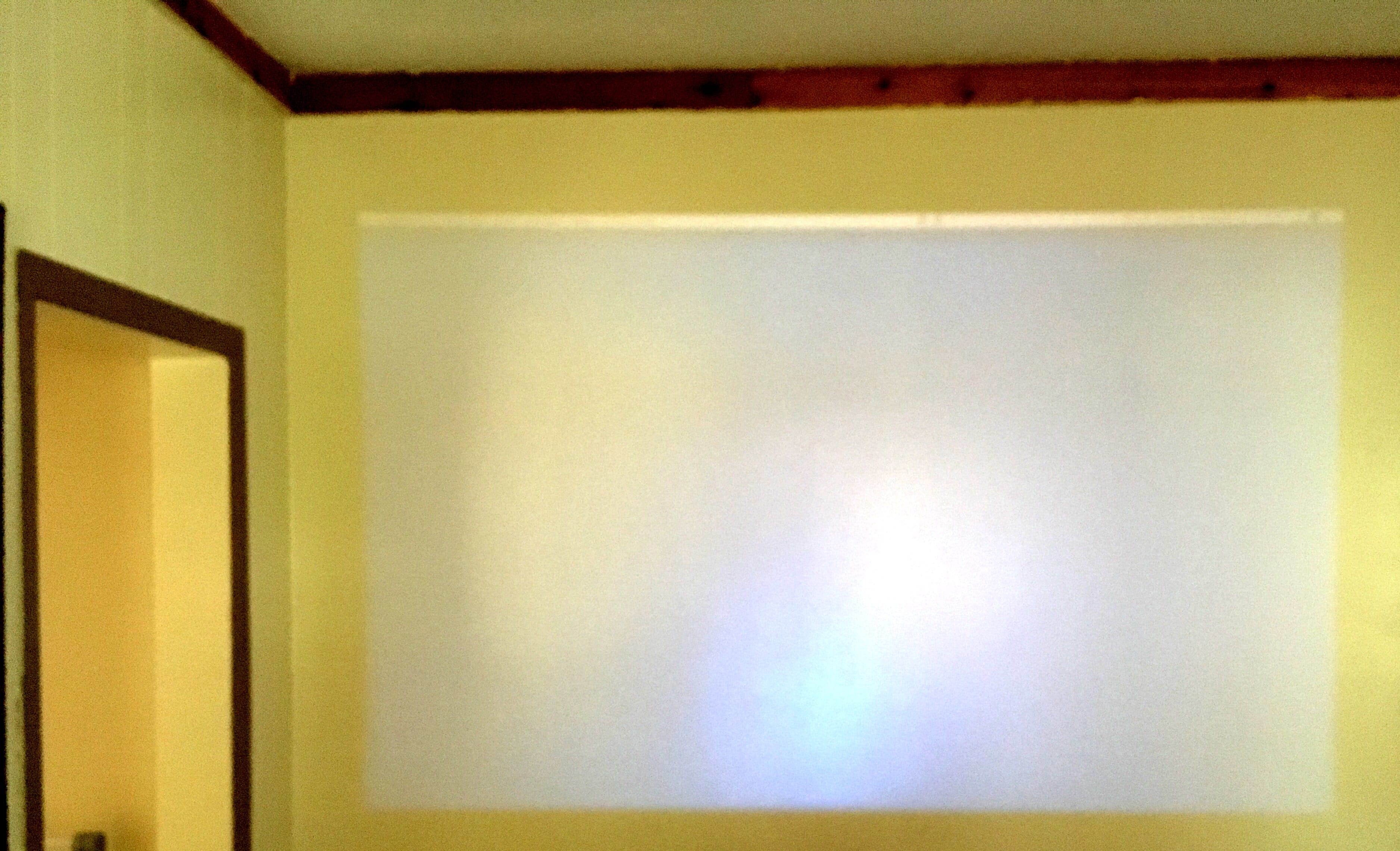 The projected image has been keystone-corrected; though the projector is below the center of the image, the image is rectangular.